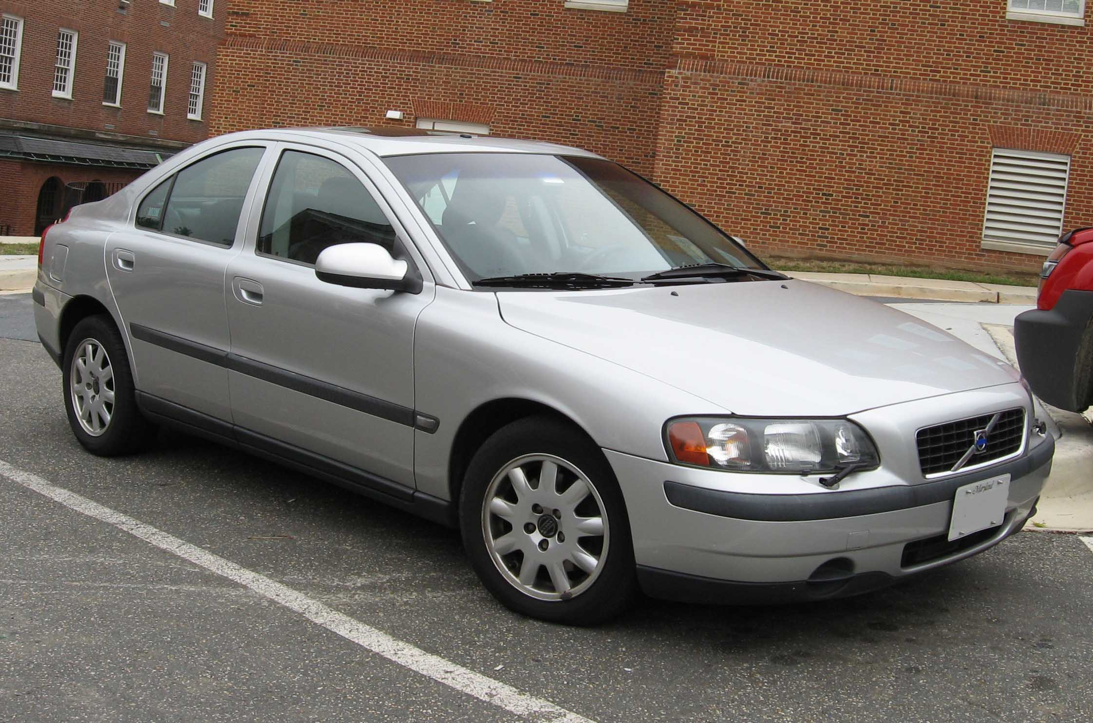 2001-2004 Volvo S60 photographed in USA.